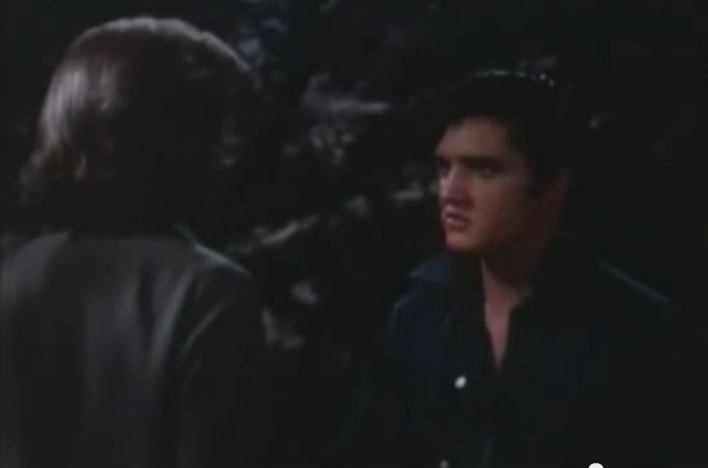 Deke Rivers (Elvis Presley) confronts Glenda Markle (Lizabeth Scott). Scene from Paramount Pictures' Loving You.